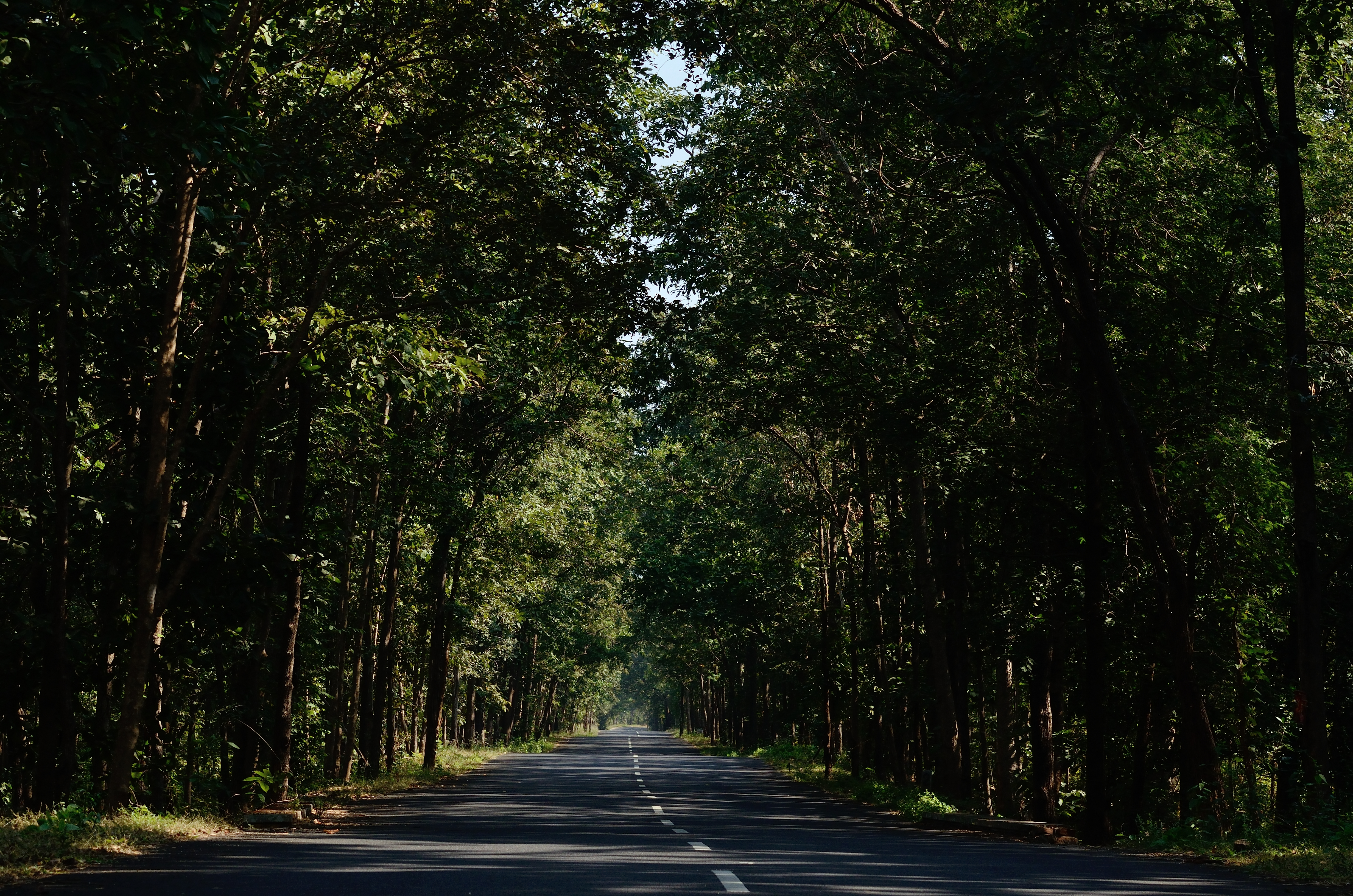 Mothugudem road near Chintoor, Eastern Ghats, Khammam district, Andhra Pradesh